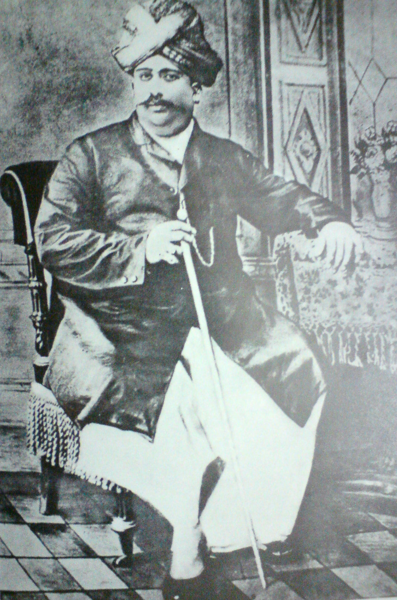 This is the picture rattinasami nadar the founder of the Nadar mahajana sagham.